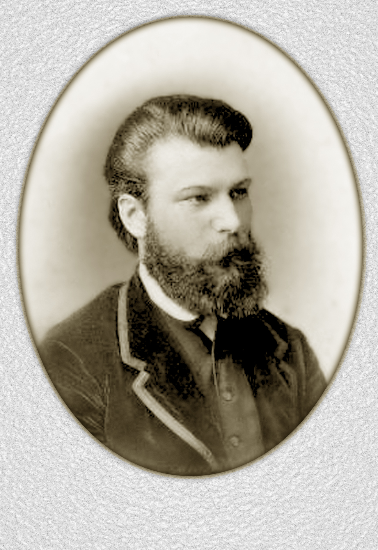 Johannes Reinhold Immanuil Körber